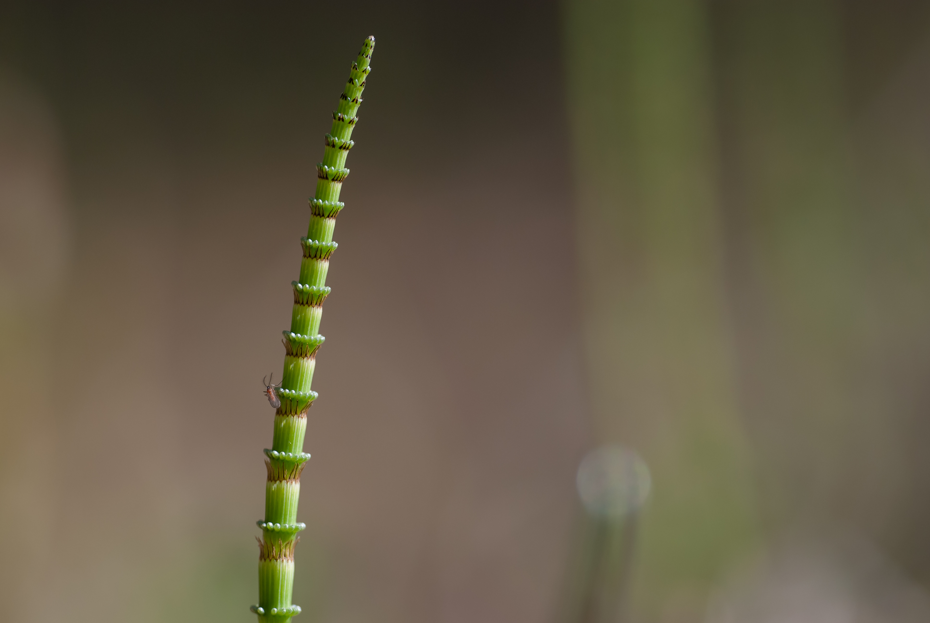 Equisetum sylvaticum in Estonia.